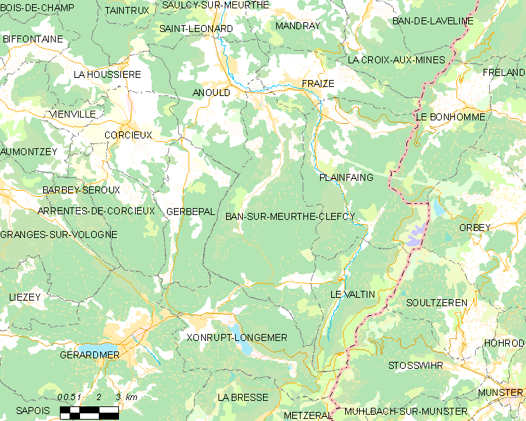 Map of French municipality Ban-sur-Meurthe-Clefcy